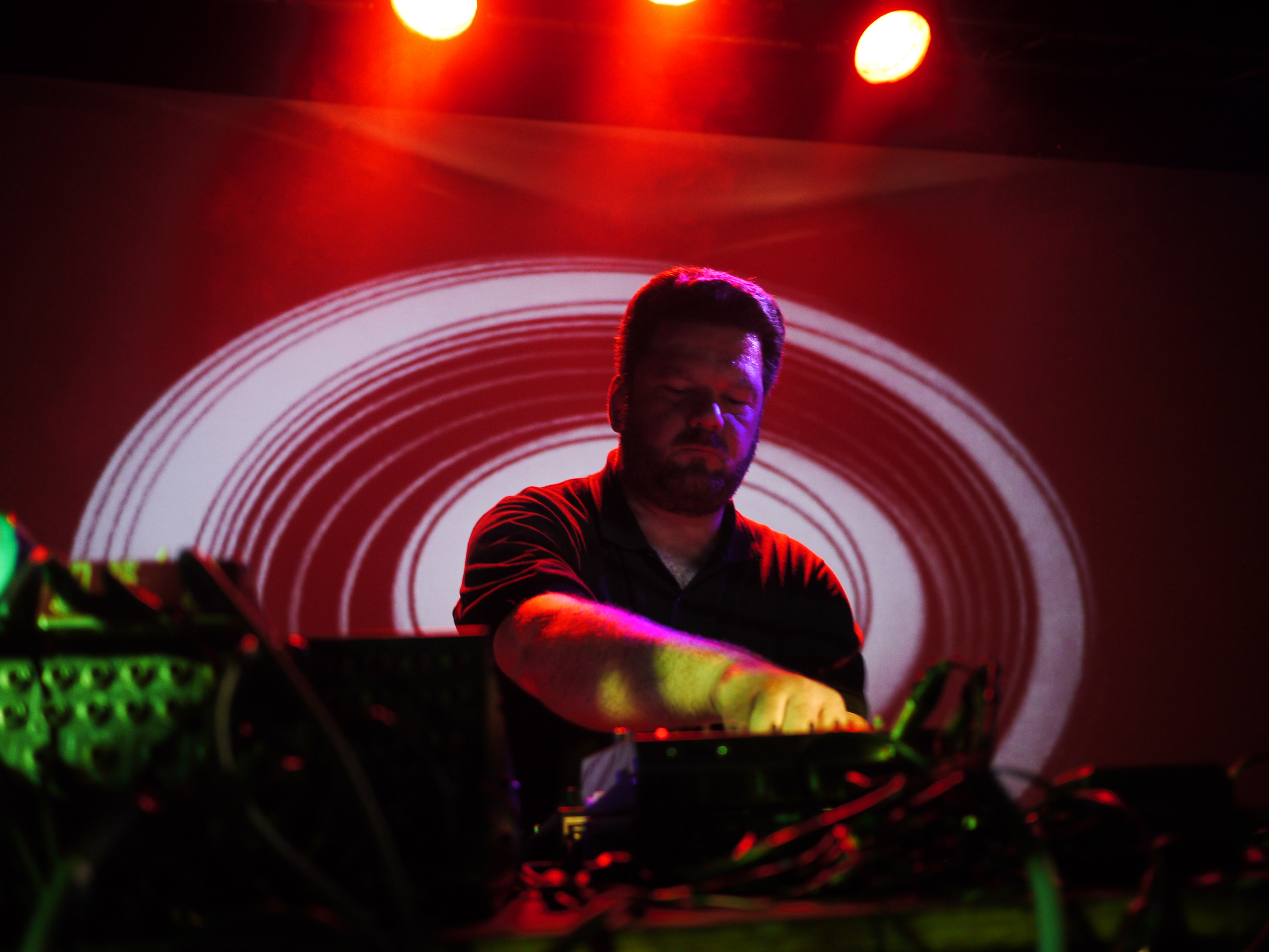 Electronic music artist Pole (Stefan Betke) performing at the "Short Circuit presents Mute" festival[1] at the Roundhouse, London, May 13, 2011 (see also [2])